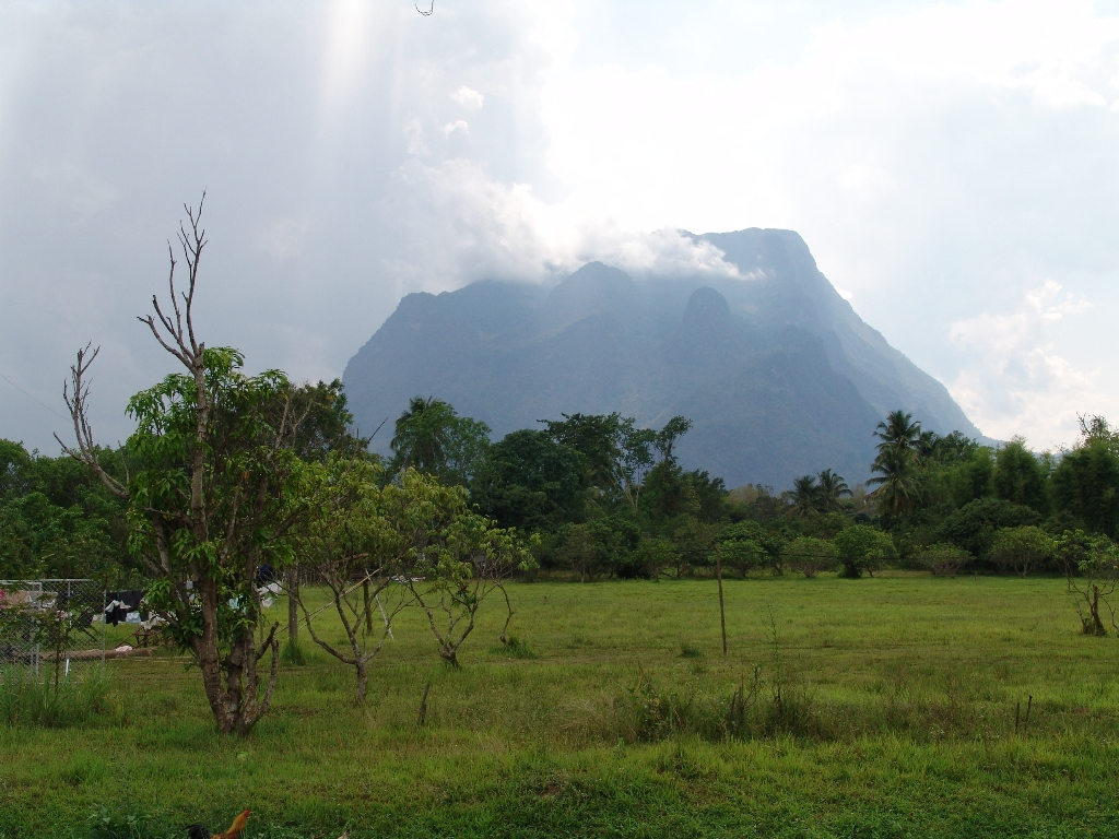 The Doi Chiang Dao mountain in Chiang Dao Wildlife Sanctuary, in the Chiang Dao District of Thailand.